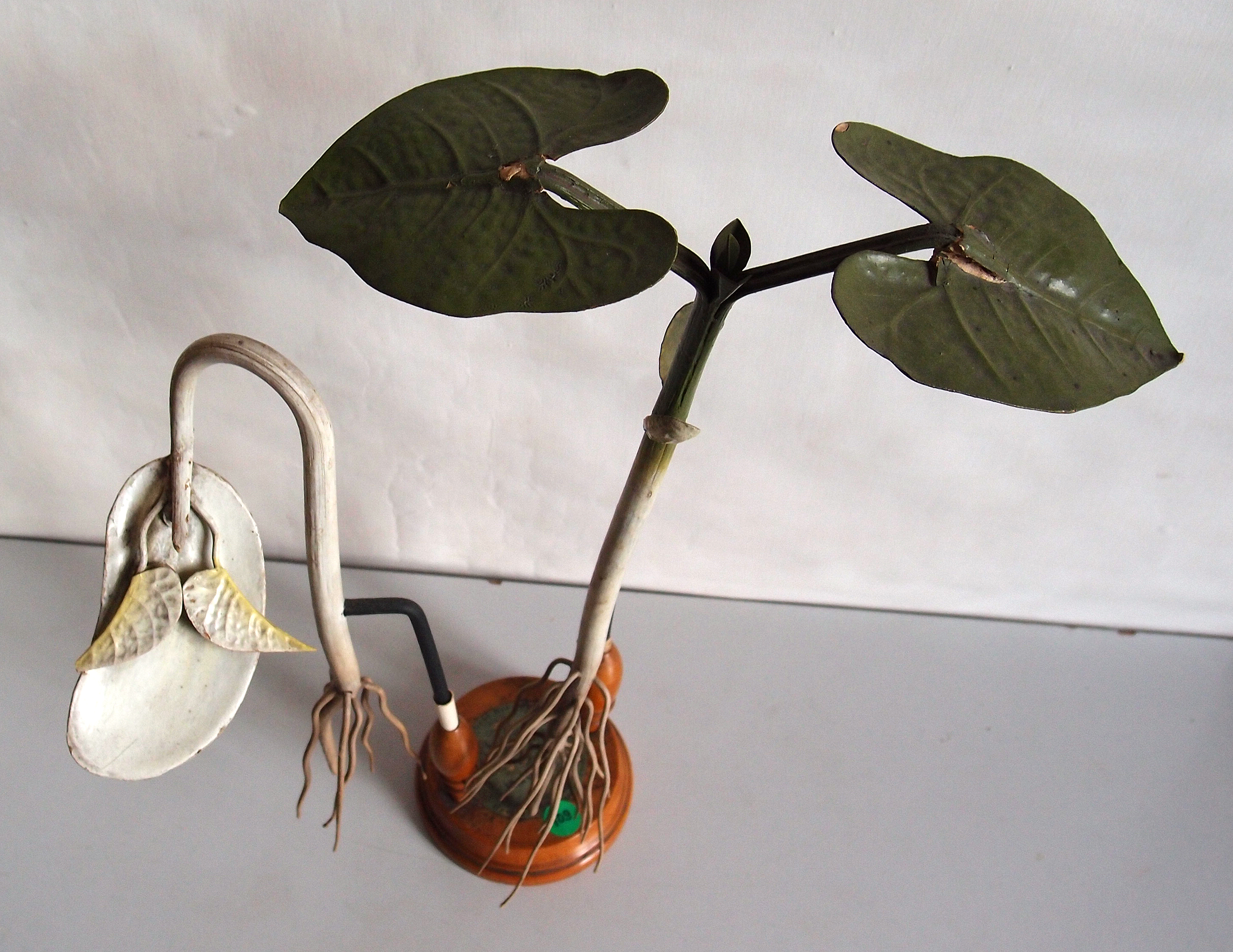 Model from the collection of the Botanical Museum in Greifswald, Germany. . see also for more information on the models